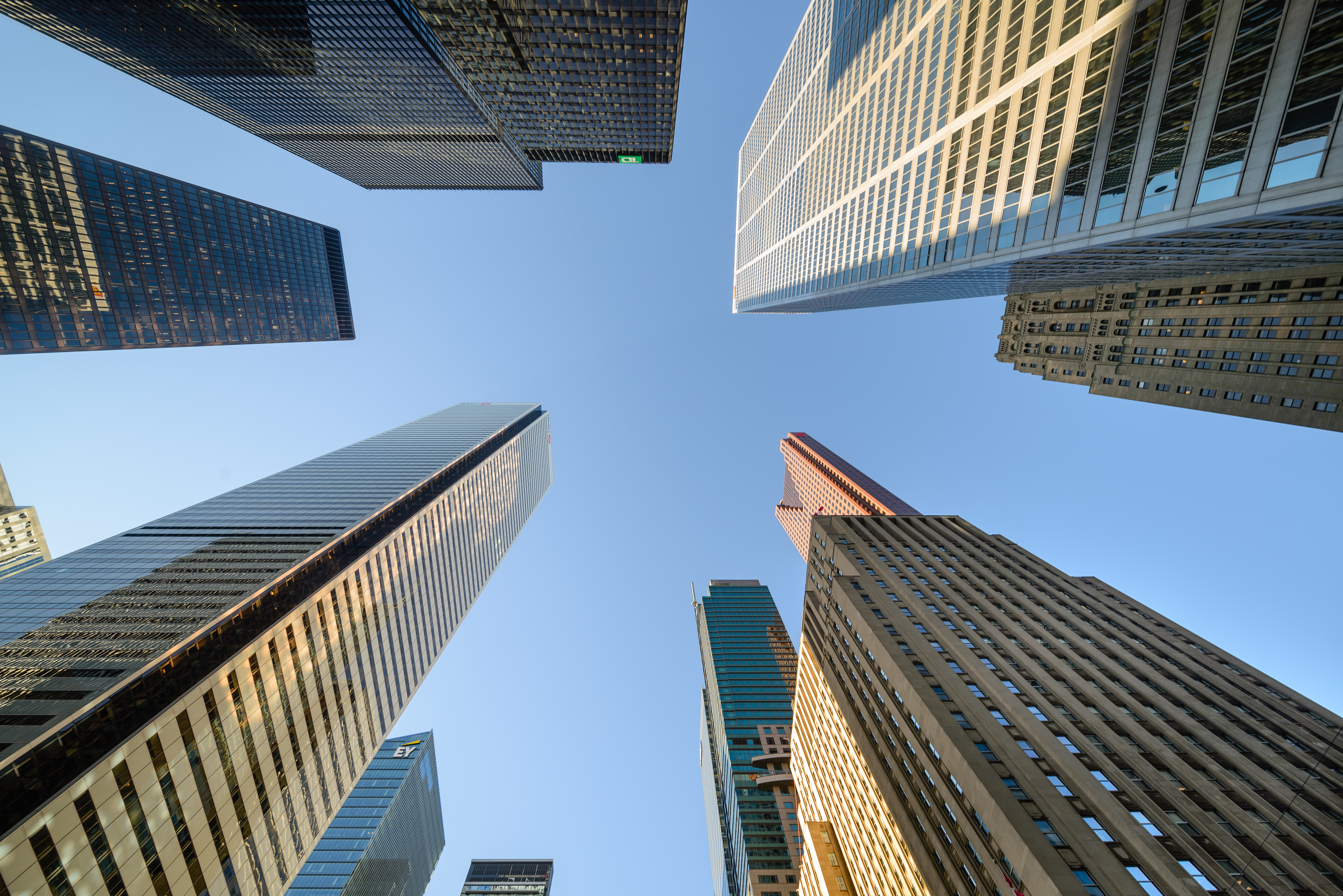 Buildings in Toronto Financial District. Including First Canadian Place (tallest building in Toronto and Canada since 1976), The Adelaide Hotel Toronto (2th tallest building in Toronto and Canada), Scotia Plaza (3th tallest building in Toronto and Canada).